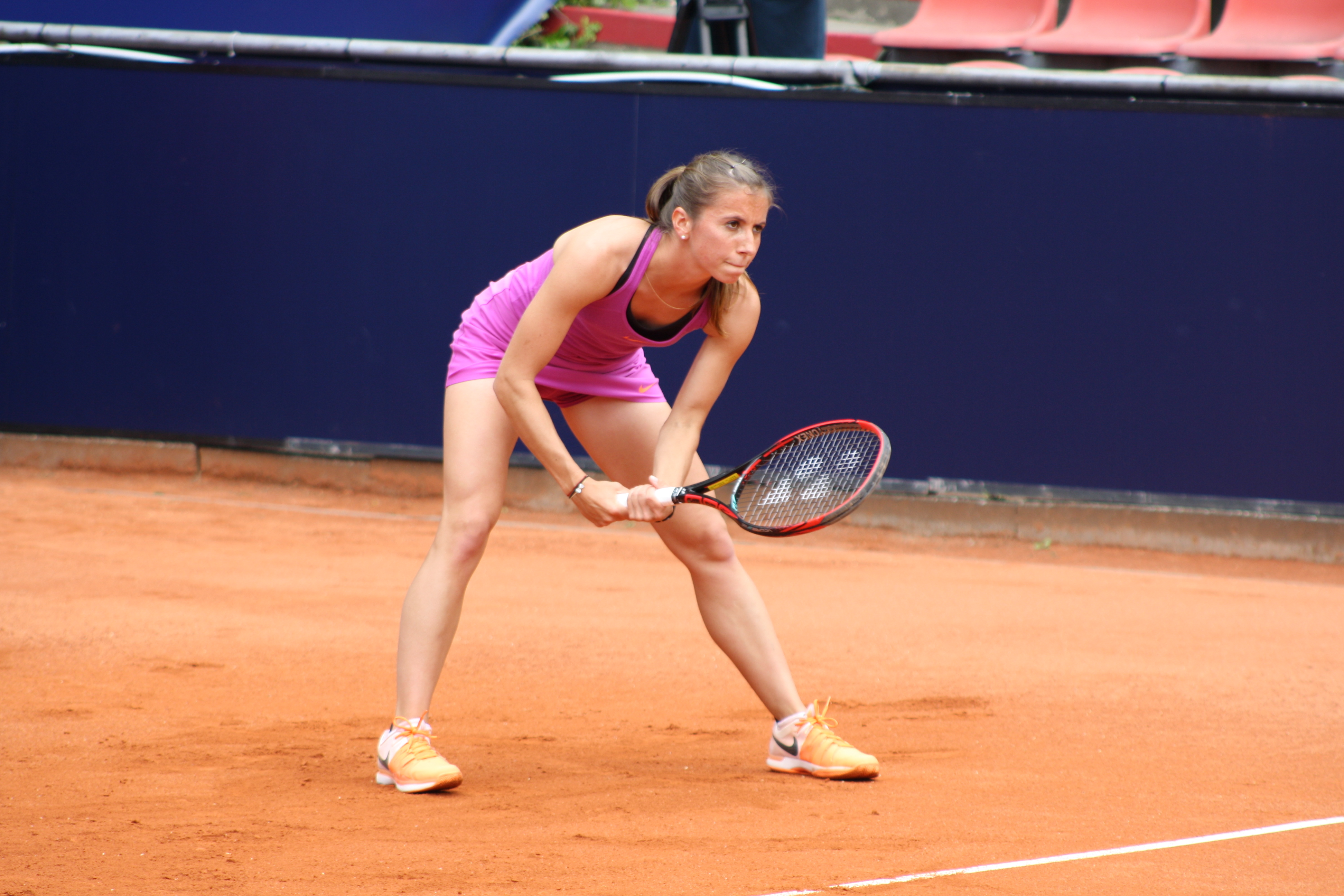 Annika Beck, May 2017